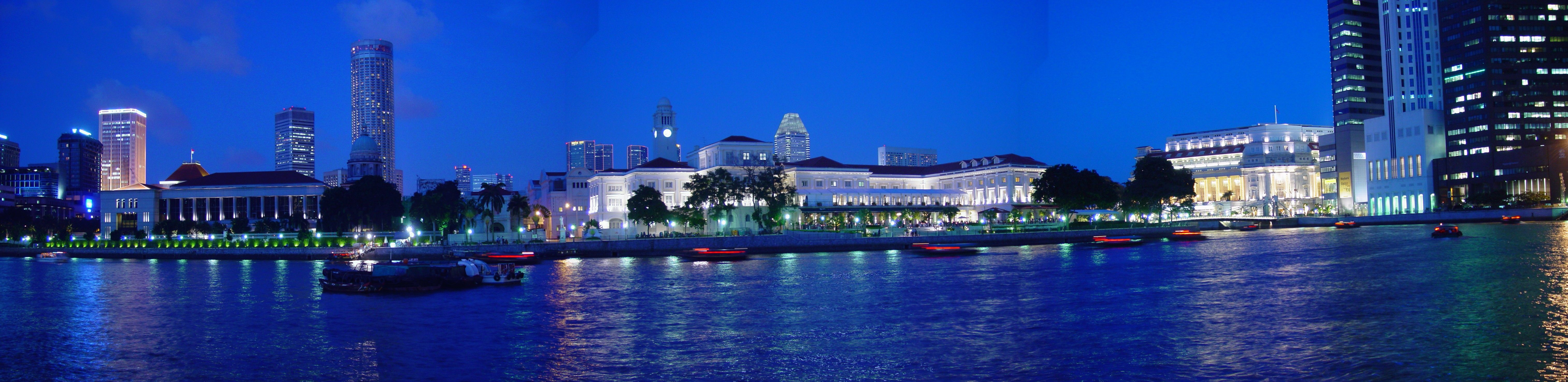 Singapore panorama from Boat Quay. Stitched with Linux hugin.